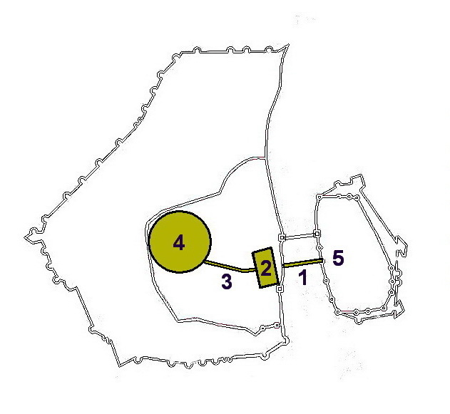 Stylized map of the medieval city of Maastricht, the Netherlands, showing the late Roman castrum and the supposedly early Medieval fortifications (9th/10th c.). The Roman castrum has been excavated almost entirely; the Carolingian fortress around the church and monasterium of Saint Servatius is hypothetical. 1.Roman bridge · 2.Roman castrum · 3.Via Regia · 4.Carolingian fortress · 5.Wyck